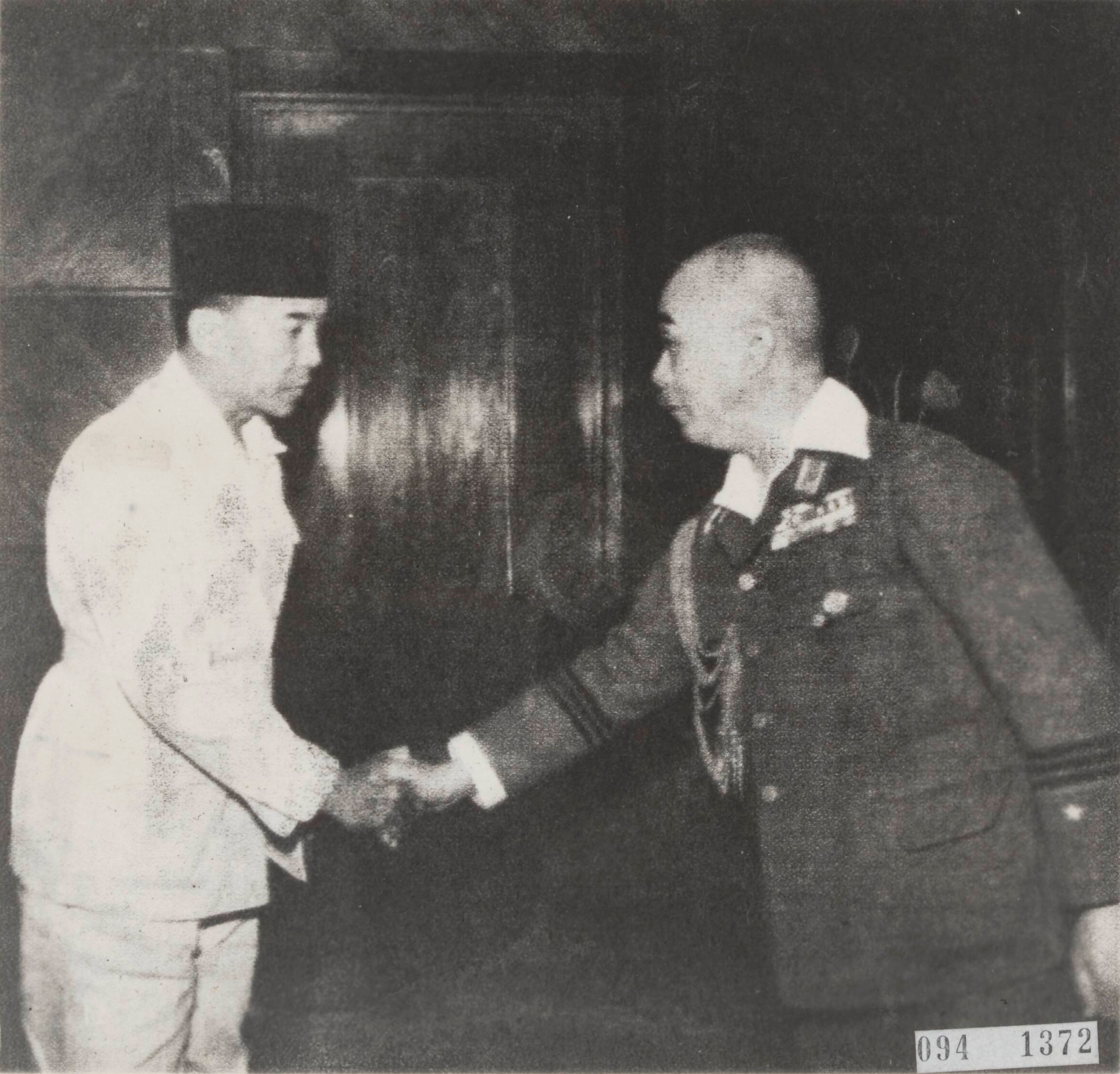 Sukarno (left), President of the People's Council (Tyuuosangi-in) shakes the hand of the Japanese director of the Interior for occupied Dutch East Indies, Major General Moichiri Yamamoto